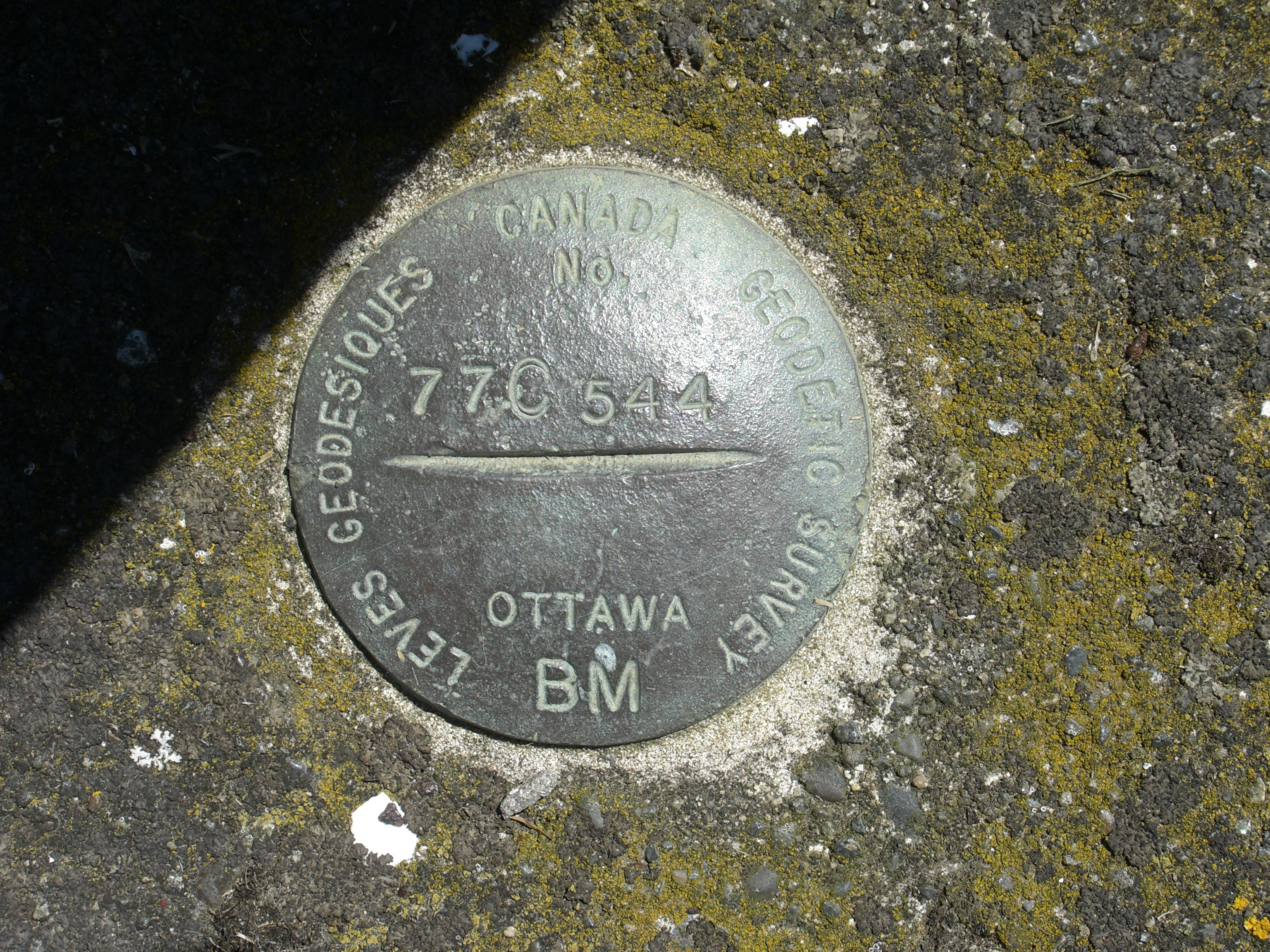 Geodetic Survey of Canada GSC Benchmark 77C544 by former location of totem pole on waterfront at intersection of Island Highway and Memorial Avenue.